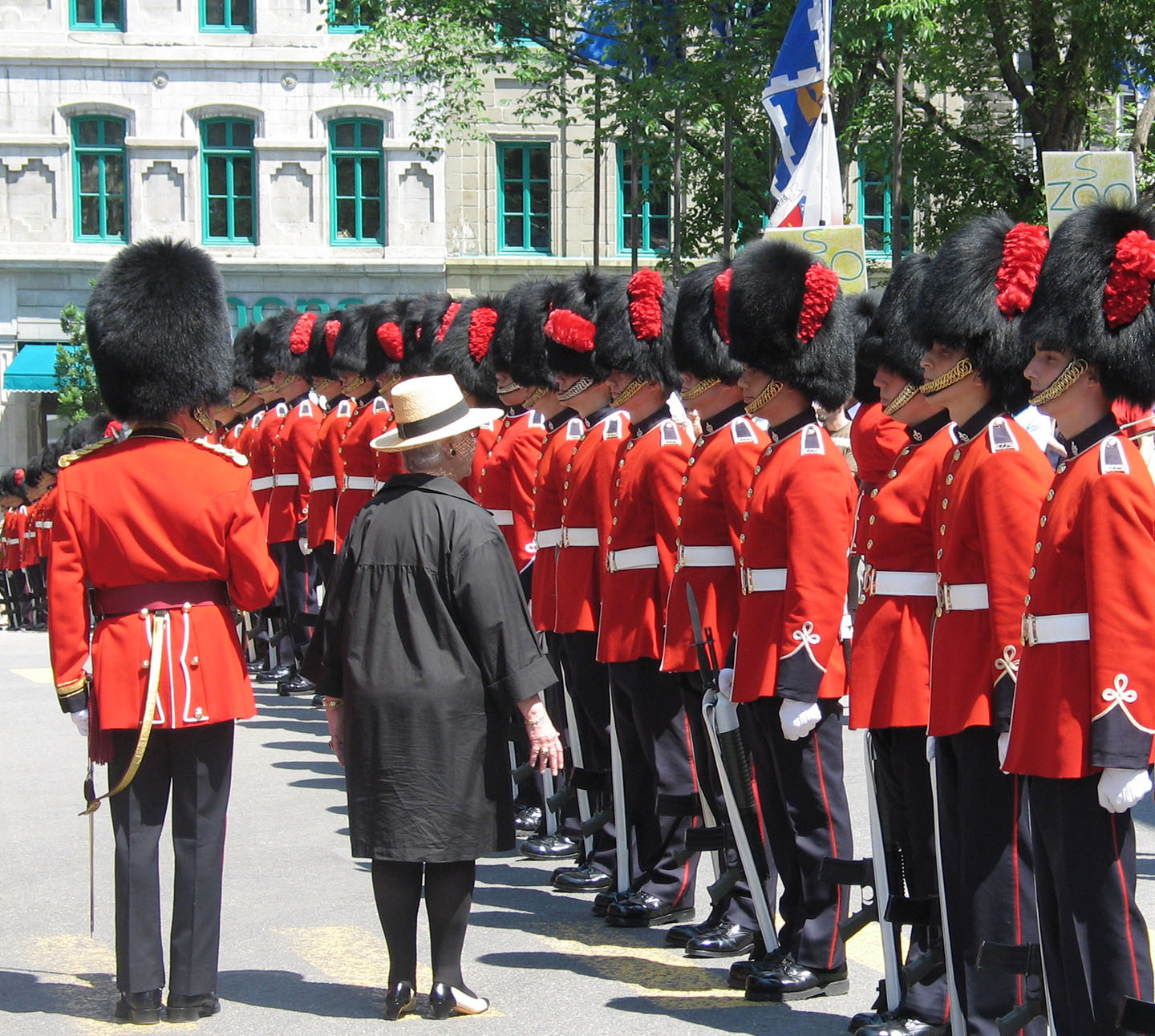 The Mayor of Quebec City, Andrée P. Boucher inspecting a guard of honour of the Royal 22e Régiment of the Canadian Forces exercising its Freedom of the City in front of City Hall during the celebration commemorating the 398th anniversary of Quebec City, on July 3, 2006.